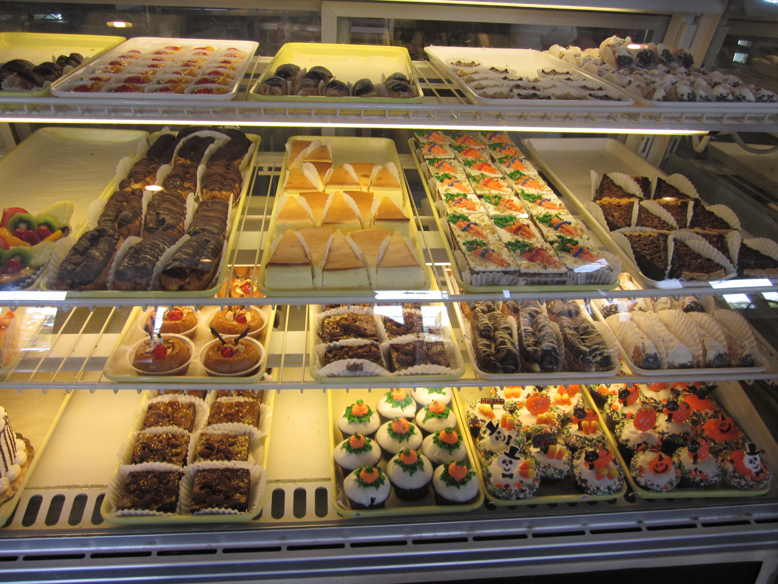 Old Carrollton section of New Orleans. Bakery with Halloween treats.